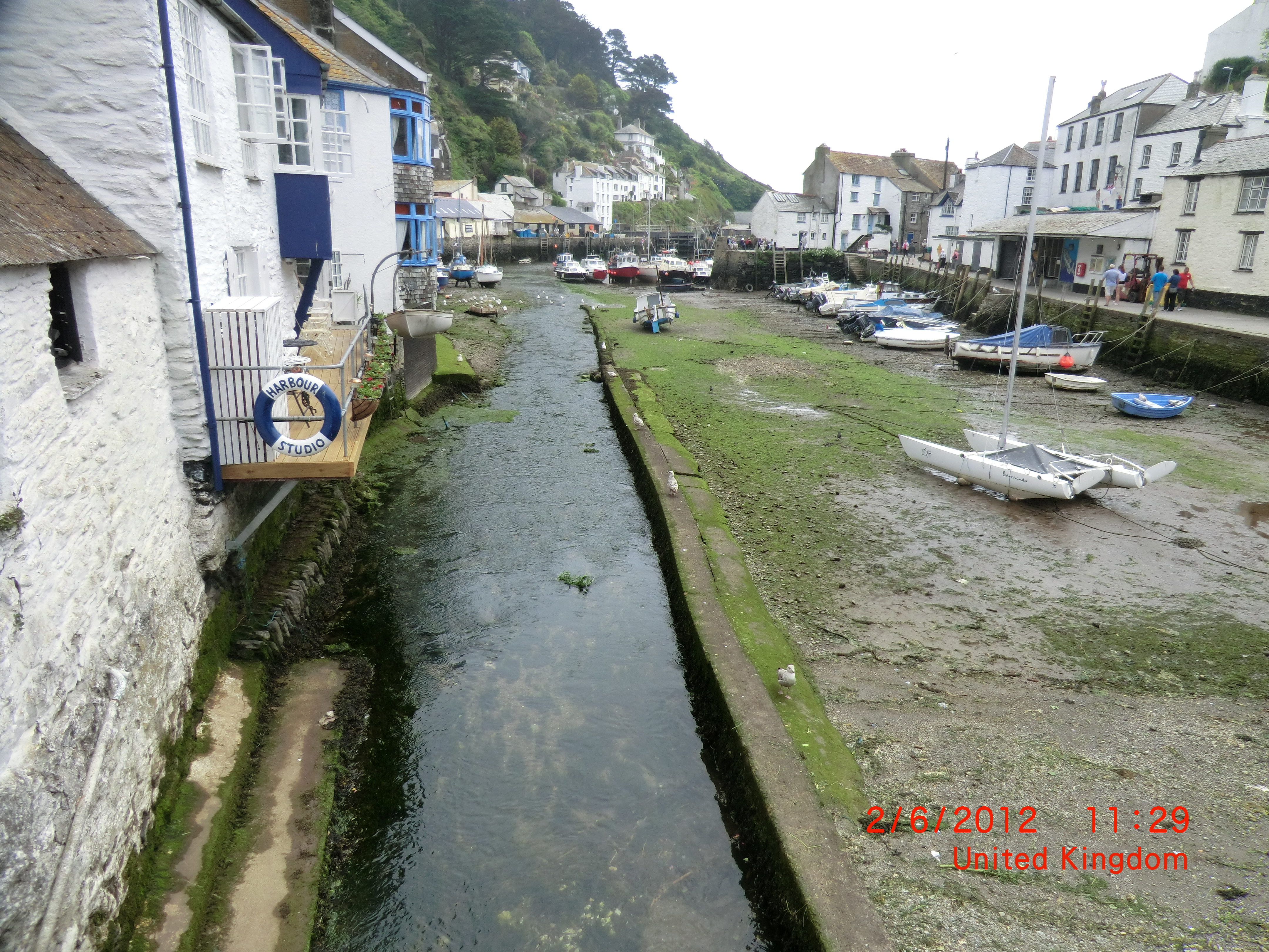 Low Tide in Polperro Harbour